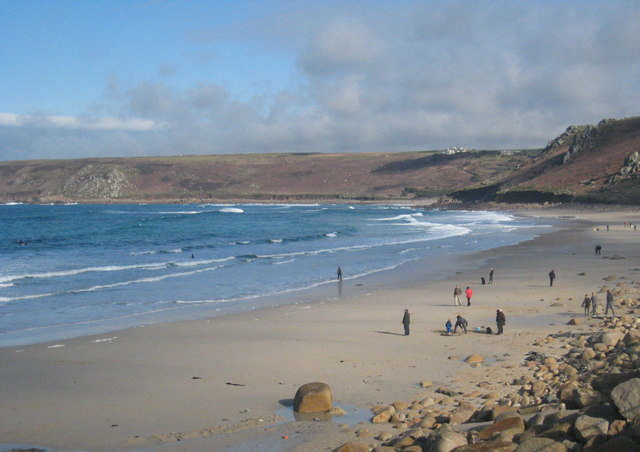 Sennen Cove beach Plenty of activity on a fine day during February half-term week.